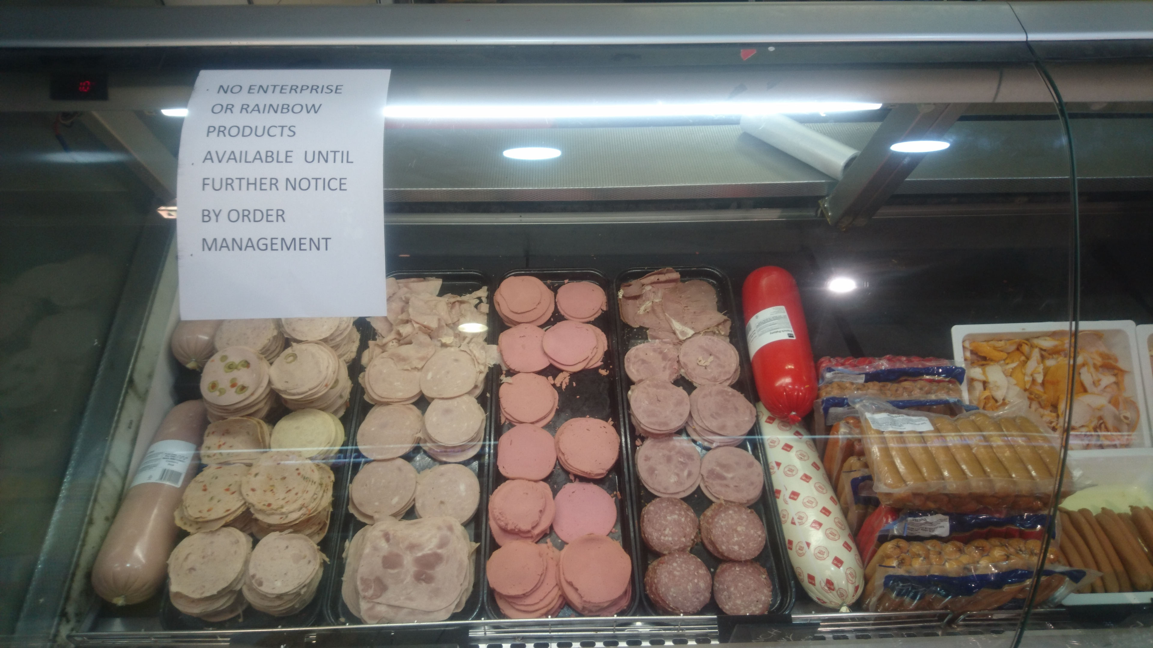 A range of processed meats -mostly polony- for sale in a South African supermarket in Cape Town. A note states that all Enterprise and Rainbow Chicken products have been recalled. This is in reference to the South African listeriosis outbreak occurring at the time.